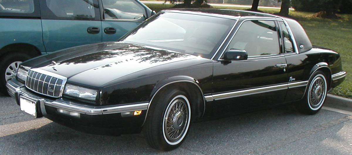 1986-1993 Buick Riviera photographed in USA.